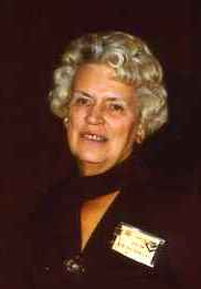 Irene Bolam photographed in 1977 by Donita Simpson